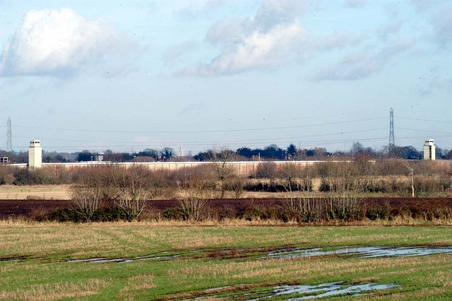 Long Kesh Long Kesh also known as the Maze Prison Camp, viewed from Maze Presbyterian Church, Maze.